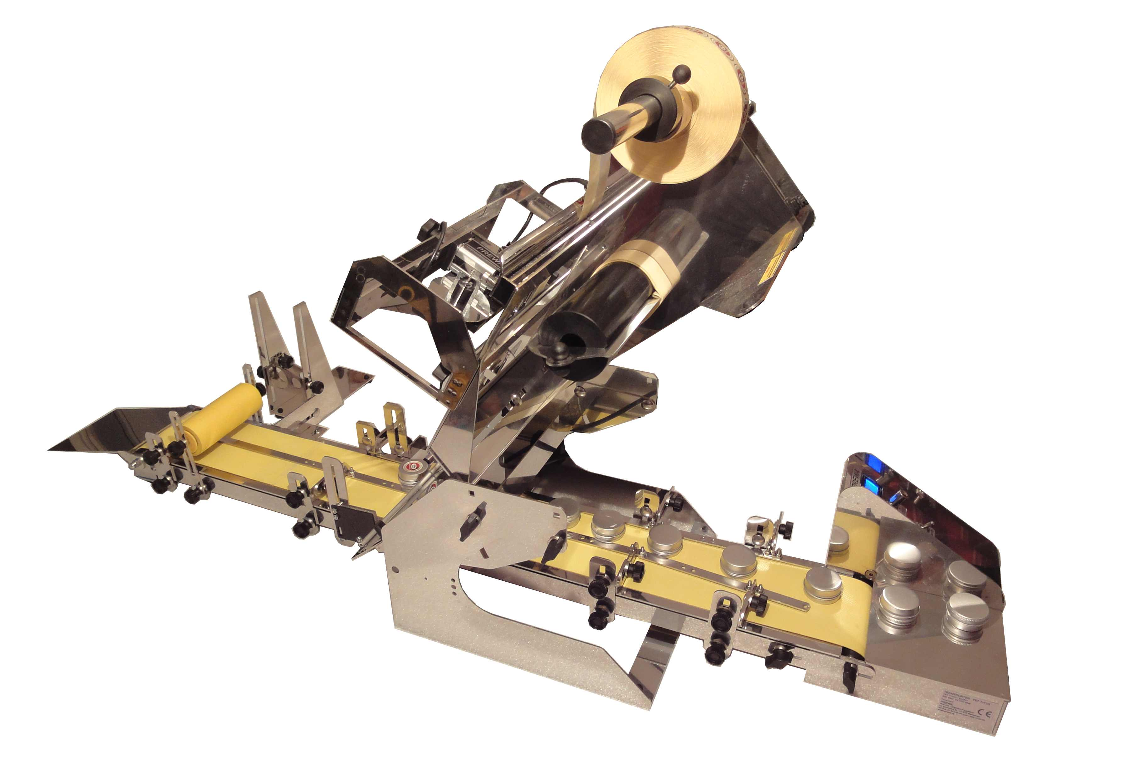 labelling machine